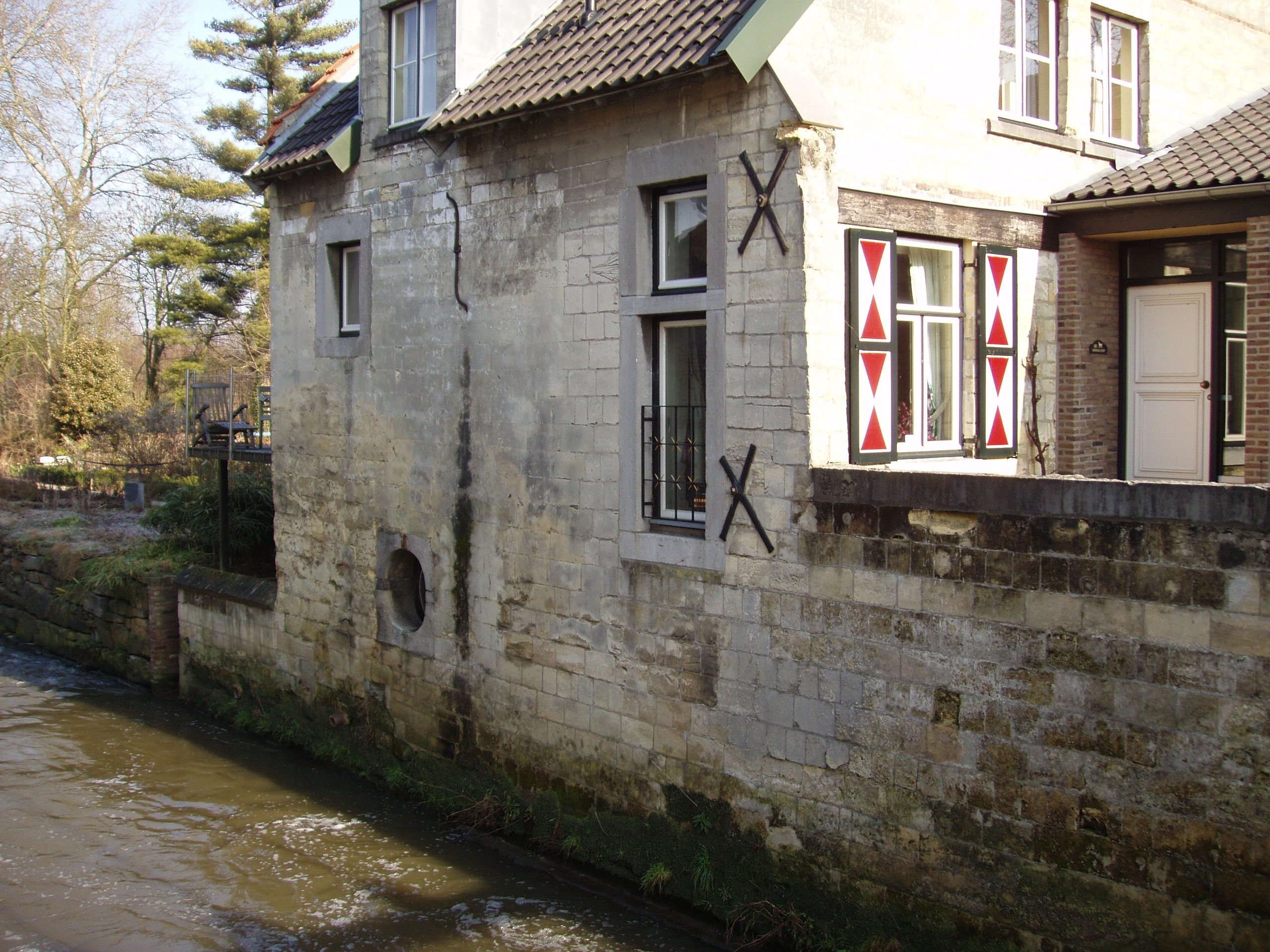 Watermill Molen van Dollaert, Maastricht, Limburg, Netherlands